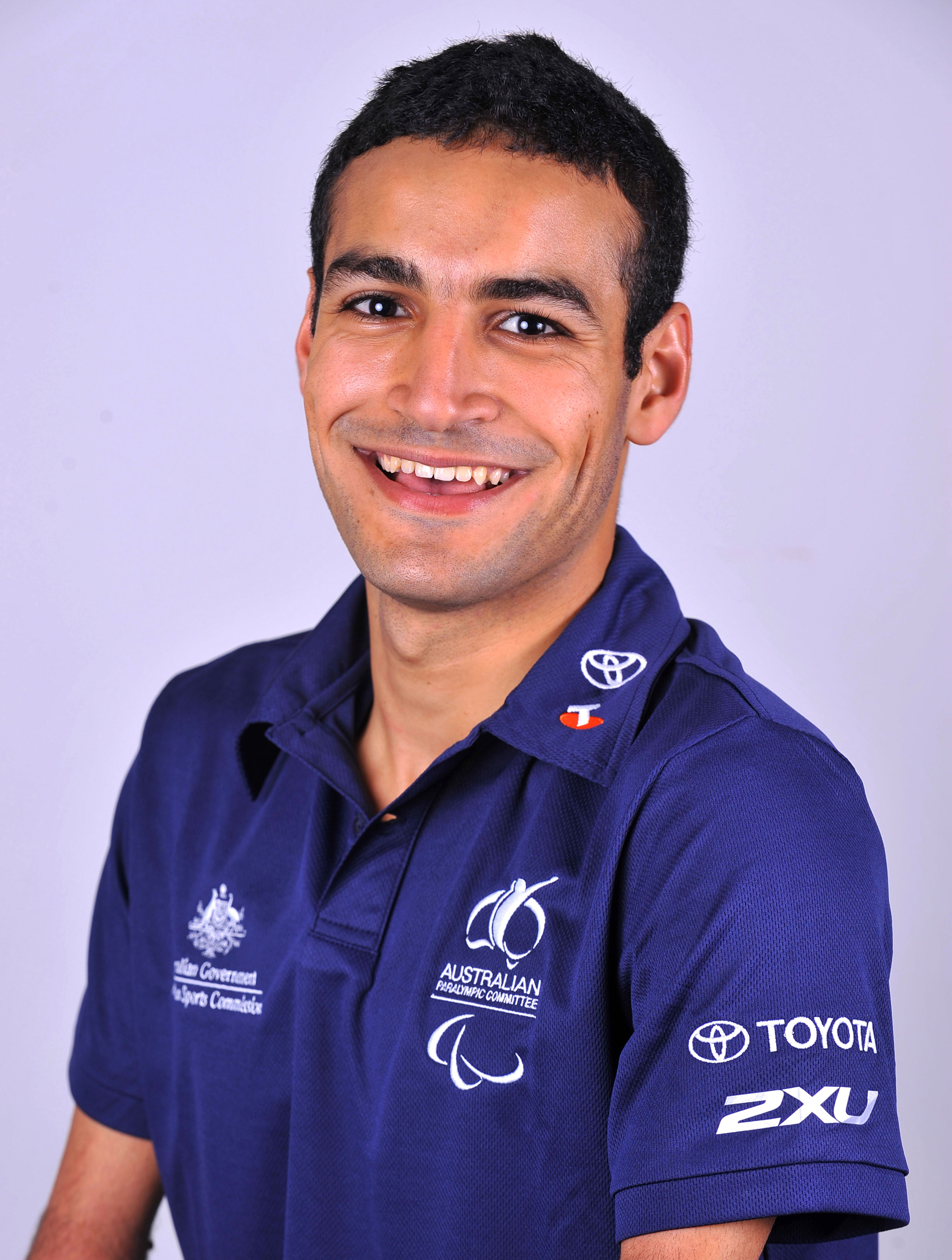 Portrait of Australian swimmer Ahmed Kelly, 2012 Australian Paralympic (shadow) Team athlete